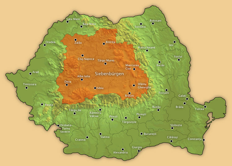 Siebenbuergen